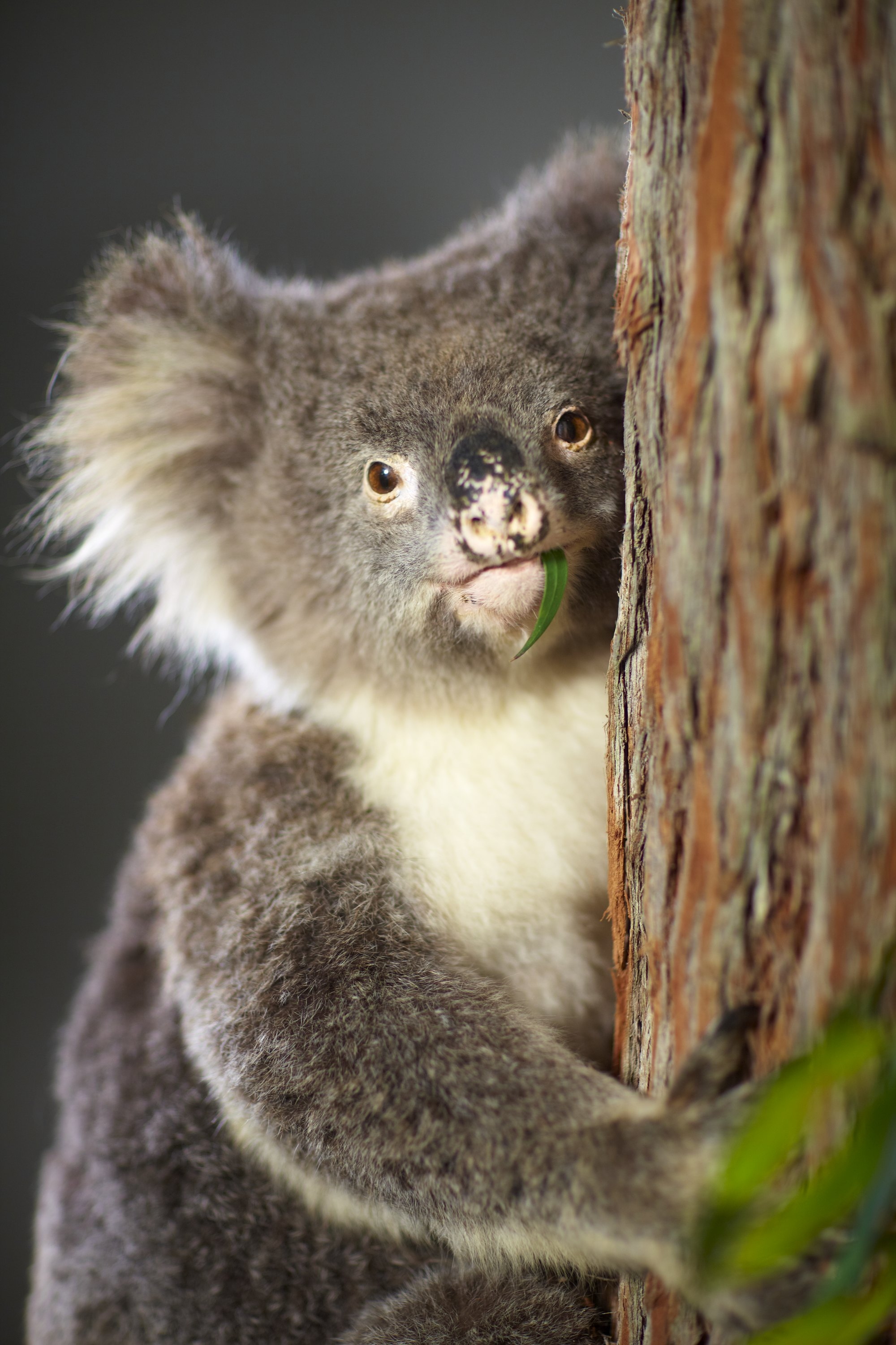 Taxidermied Mount of Sam the Koala (Phascolarctos cinereus), 2009. Specimen C 36785. Victoria Museum. "This is the prepared hide of Sam the Koala. Sam's public story started a week prior to the February 9th Black Saturday Bushfires, when she was filmed drinking from firefighter David Tree's water bottle. The publication of Sam's image became headline news around the world. She became a symbol of hope and resilience amidst the loss and trauma of Australia's worst bushfires on record. Sam's situation became known to Wildlife Rescue and Protection members on 6 February 2009. Sam recovered from her burns at the Southern Ash Wildlife Shelter, but was later euthanised due to chlamydiosis which is widespread in koalas and is exacerbated by loss of habitat. After Sam's death she was moved to the Musem Collection and was prepared for display in a manner depicted her recovering from her fire injuries, during the time she was cared for at the Southern Ash Wildlife Shelter. Sam has been on display in the Wild exhibition at Melbourne Museum since that time." source See also : Rebecca Carland, Sam the Koala, Museums Victoria Collections, 2017